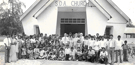 Bagan Datoh Believers with Pr. Thevarajulu, local church pastor, 1977